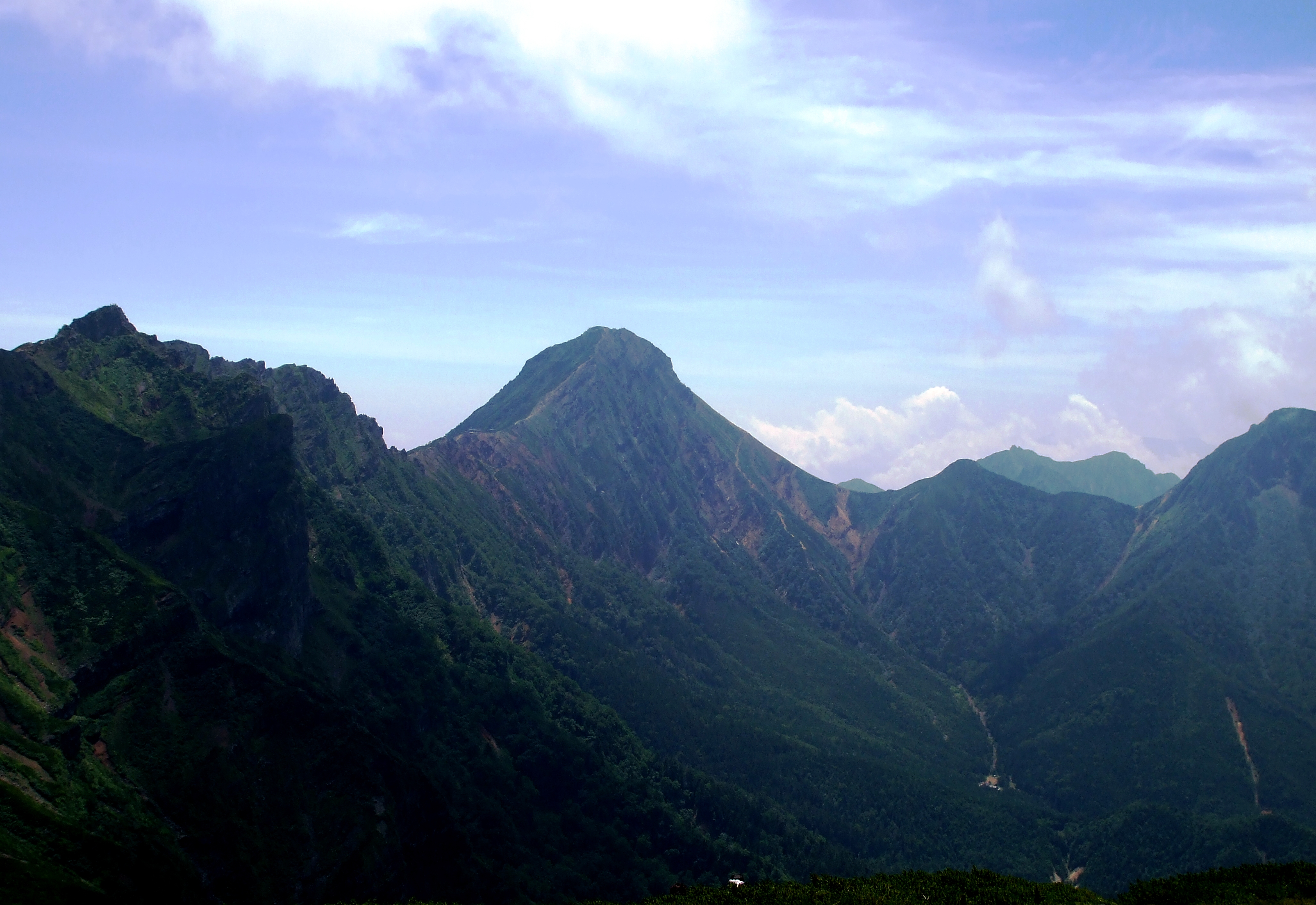 Mount Aka from Mount Iō.硫黄岳から見る赤岳。